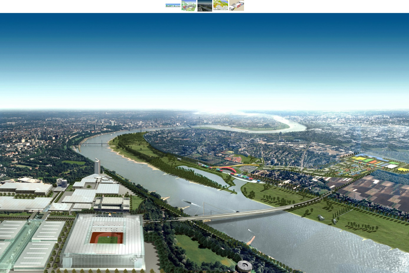 Dusseldorf Olympic Village - Aerial View